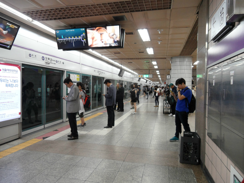 Platform of Omokgyo Station